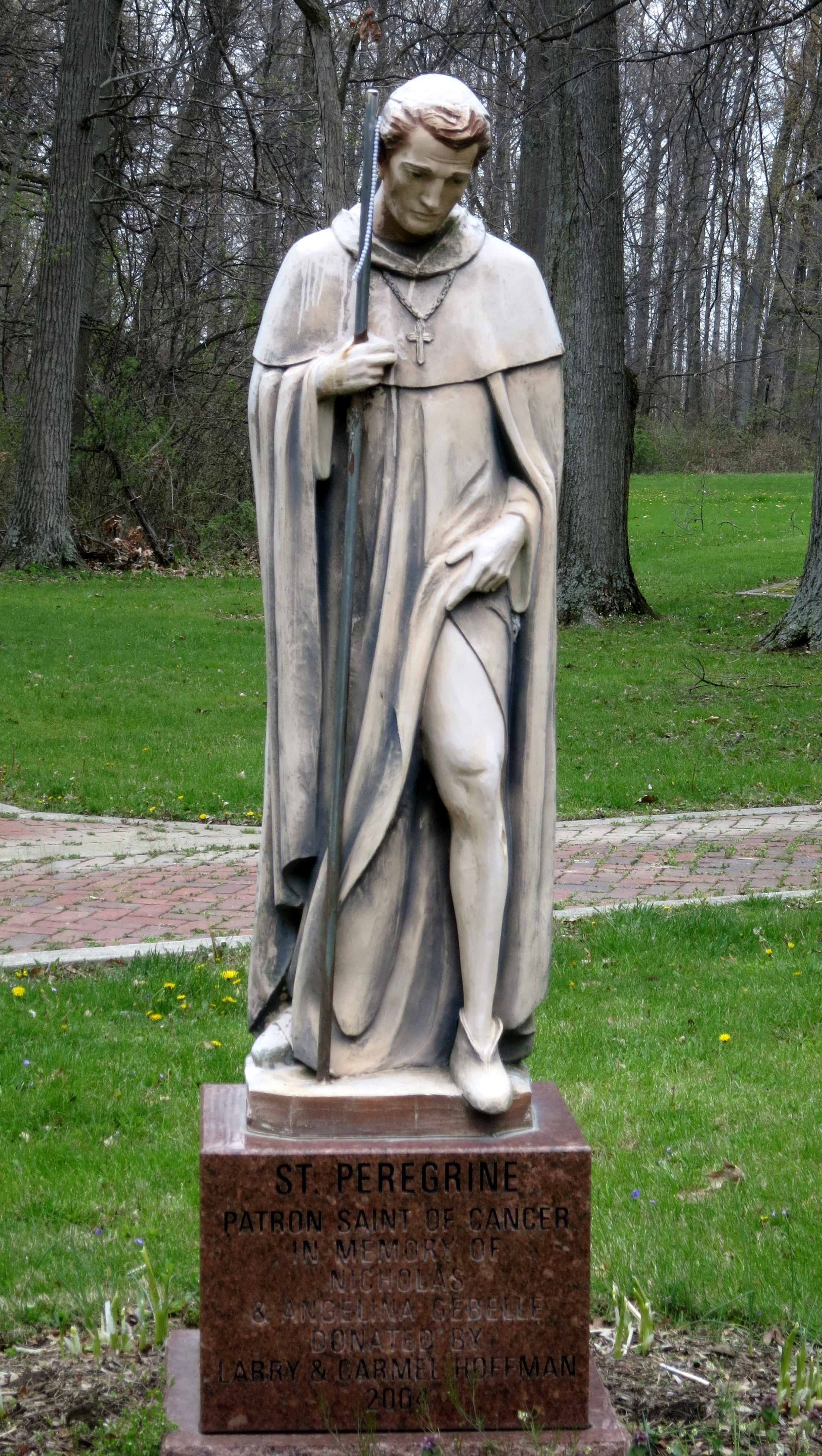 Saint Peregrine, Patron Saint of Cancer Grotto (Sorrowful Mother Shrine)